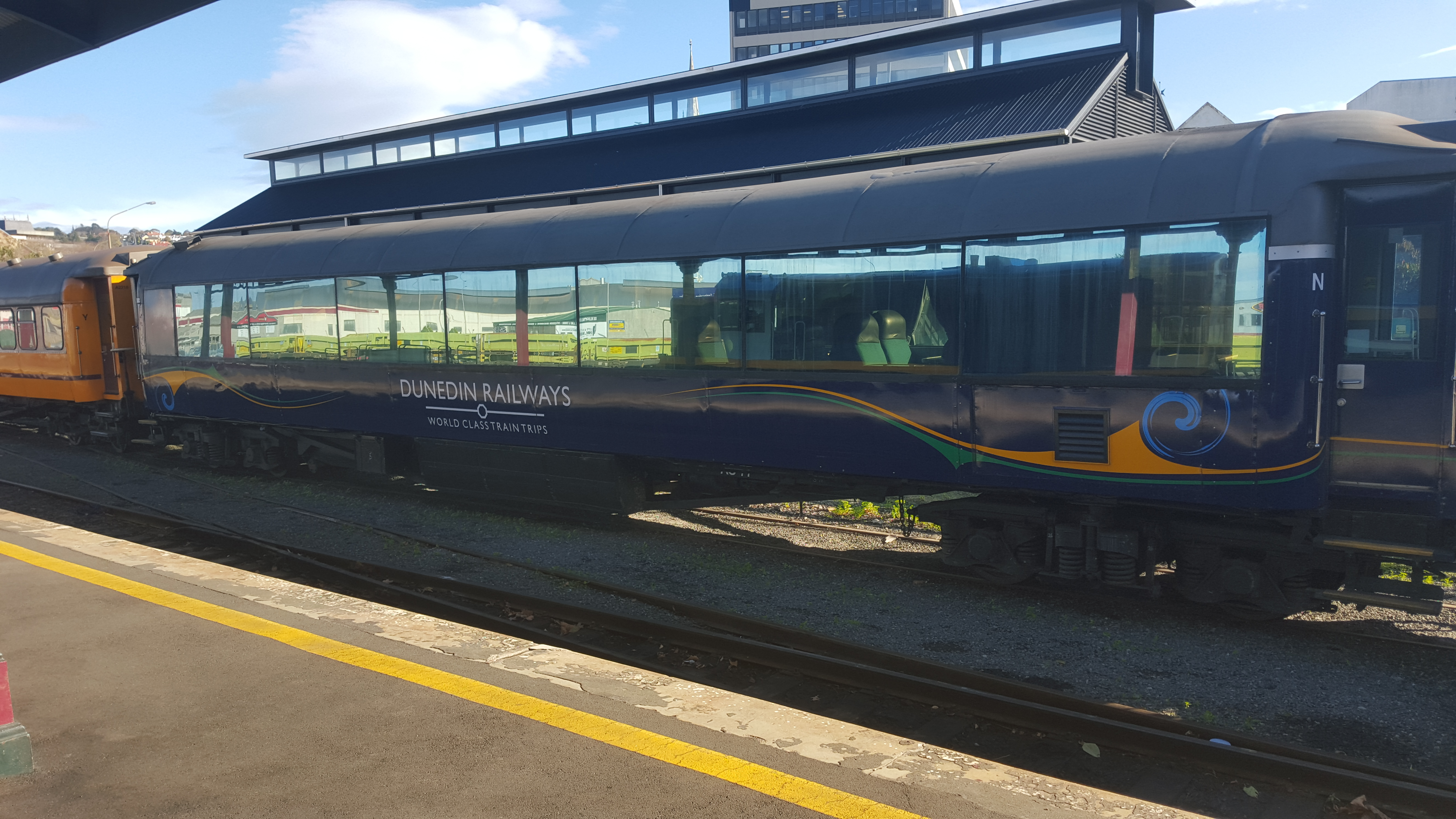 Dunedin Railways AO class carriage 2016, pictured at Dunedin Railway Station on 20 May 2016.